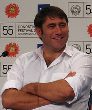 Sergi López presenting the movie „La Maison“ von Manuel Poirier at San Sebastian Filmfestival in 2007